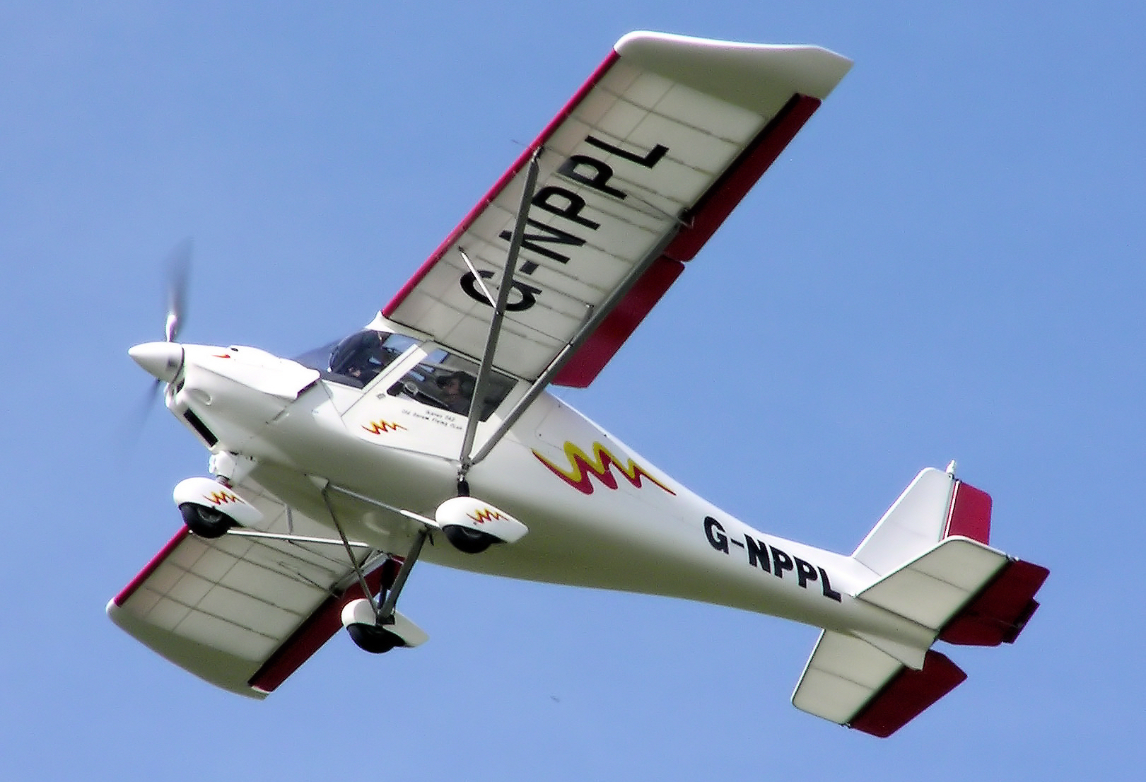 Ikarus C42 FB100 microlight (G-NPPL) at Kemble Airfield, Gloucestershire, England. Built 2003.